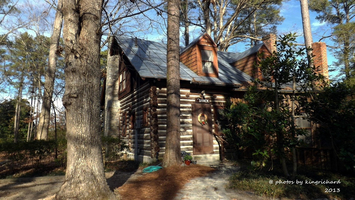 Sol Rawls "The Shack" located at Wood's Hill, Franklin, Va.